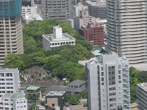 Atago-yama Hills, viewed from the Tokyo tower, Tokyo, Japan. White building in the middle of the hill is the NHK museum of broadcasting